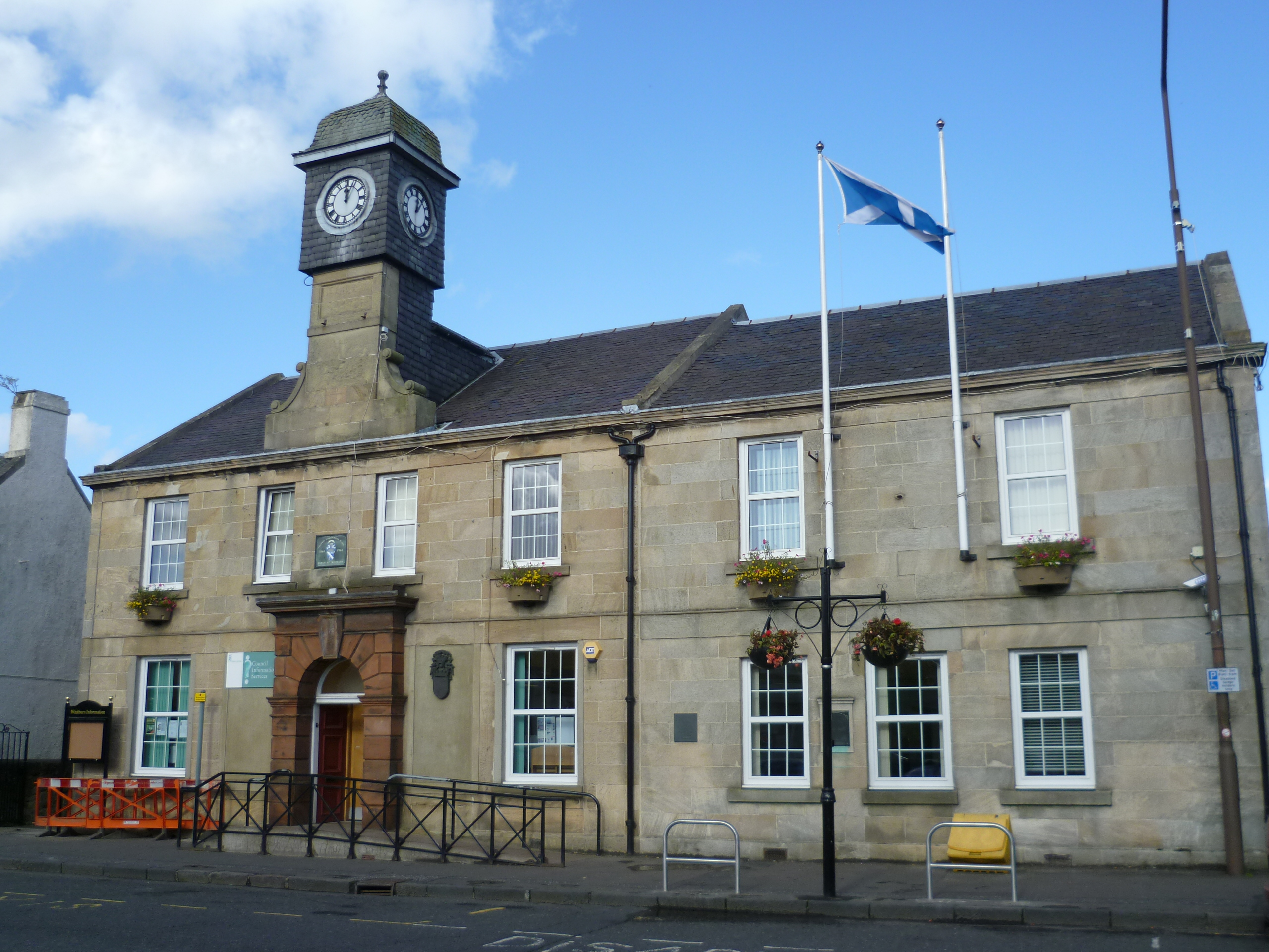 Whitburn Council Offices, West Lothian